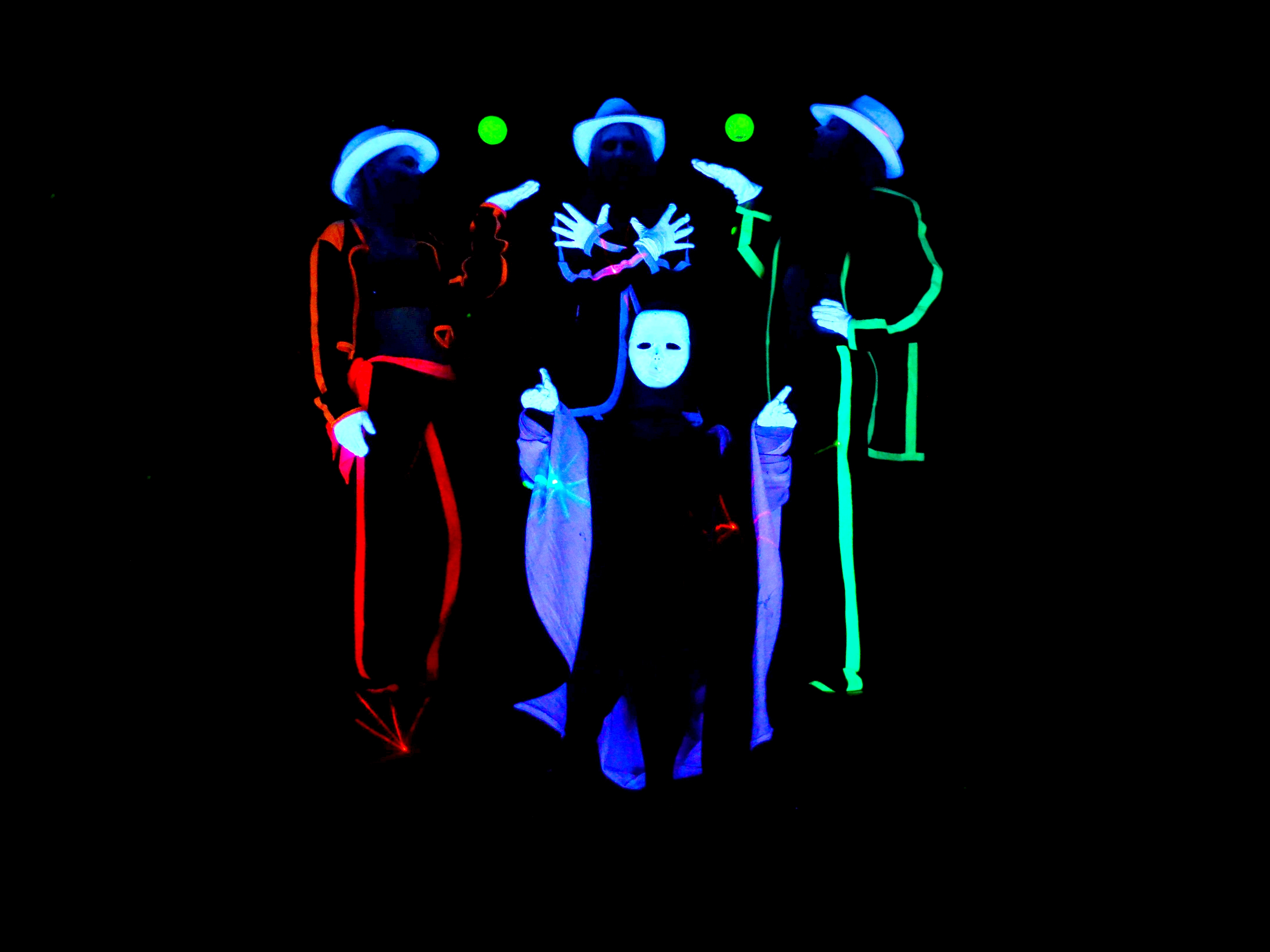 Phantom black light theatre is the compilation of 15 different short parts. It shows the best of this theatre group HILT in last ten years 2007-2017 (it is the 10th anniversary of HILT). "Black light theatre" is the very special theatre genre based on optical effects of darkness and UV lighting. This genre is the world known originality of The Czech republic since 1955. Costumes and stage props are "shining" in the dark making visual illusions - like for ex. flying dancers on black background. Each part of this show is different style - love, autumn, winter or Africa, India, Czech folklore and more. Each part is different style of music and dance choreography in combination with visual effects of UV lighting and projections. Masked person as "Phantom" is opening each part of the show.